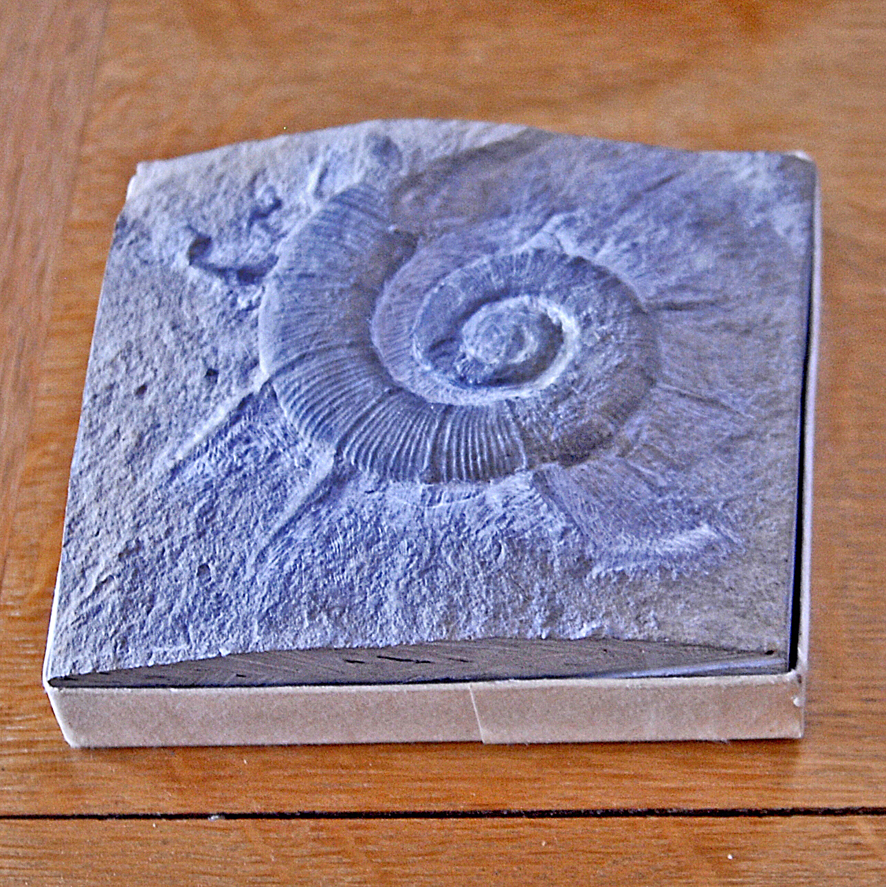 Fossil of Crioceratites duvali from France, on display at Gallery of Paleontology and Comparative Anatomy, Paris.